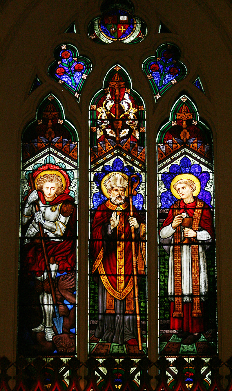 Stained glass triptych window at St.Basil Roman Catholic Church in Toronto. Design N.T.Lyon for R.McCausland Ltd. 1870's. Three lancet lights depict (from the left): St. Michael, St. Basil, and St. Charles Borromeo.